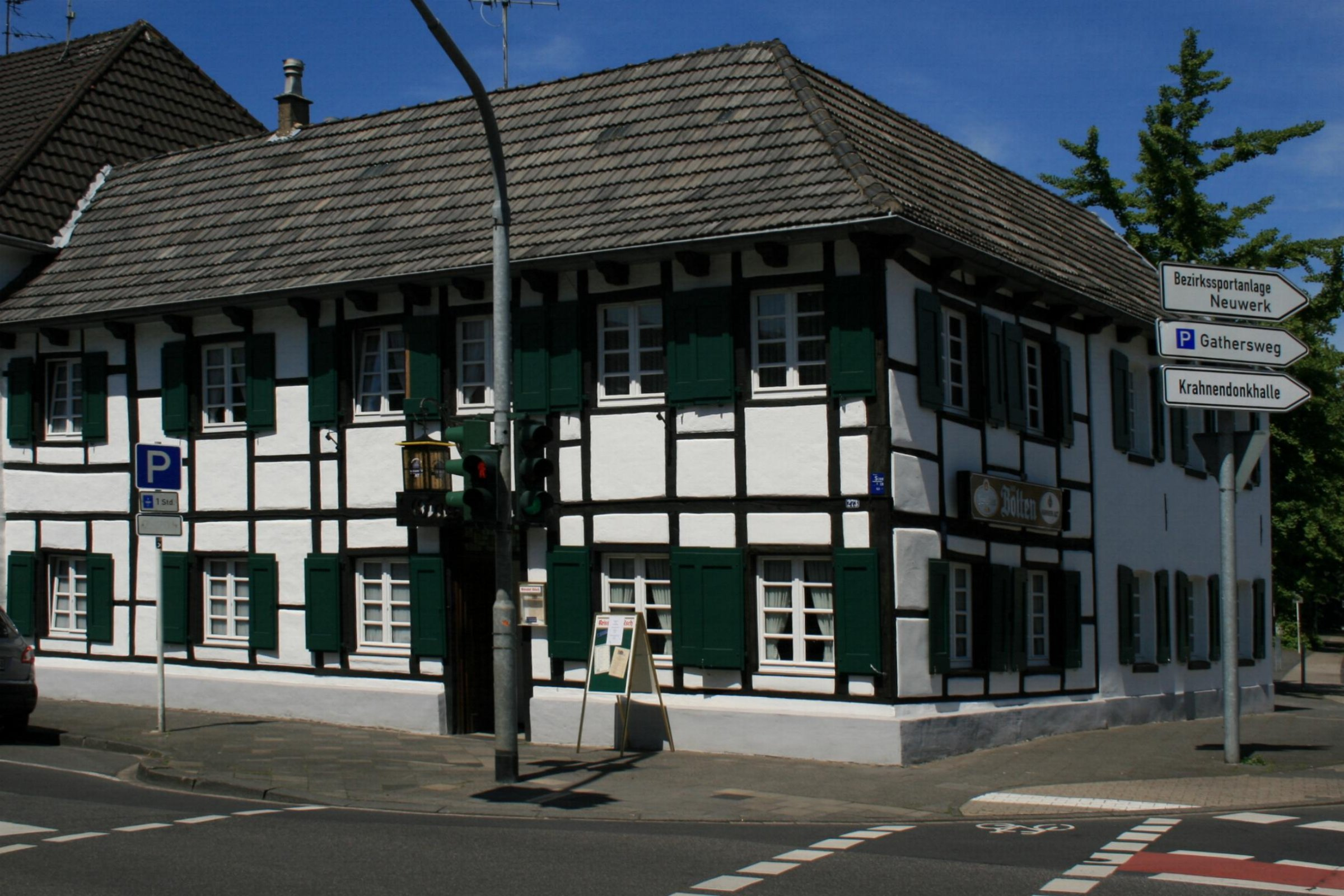 Cultural heritage monument No. D 003 in Mönchengladbach